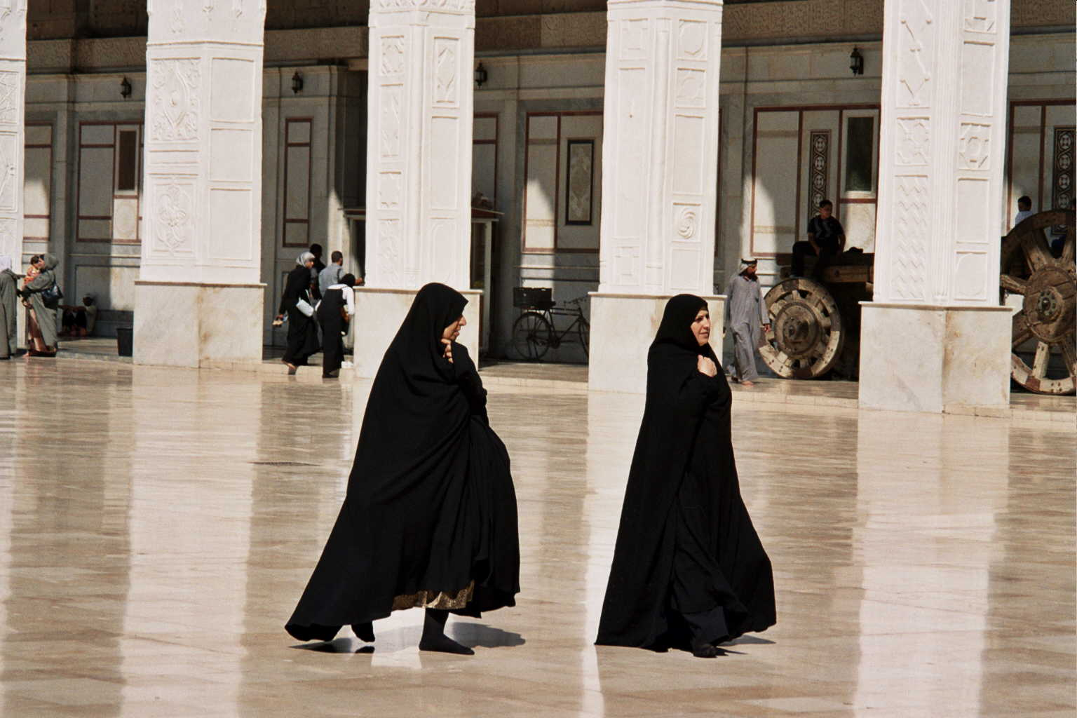 Two women (possibly Iranian) walking across the courtyard of the Umayyad Mosque.